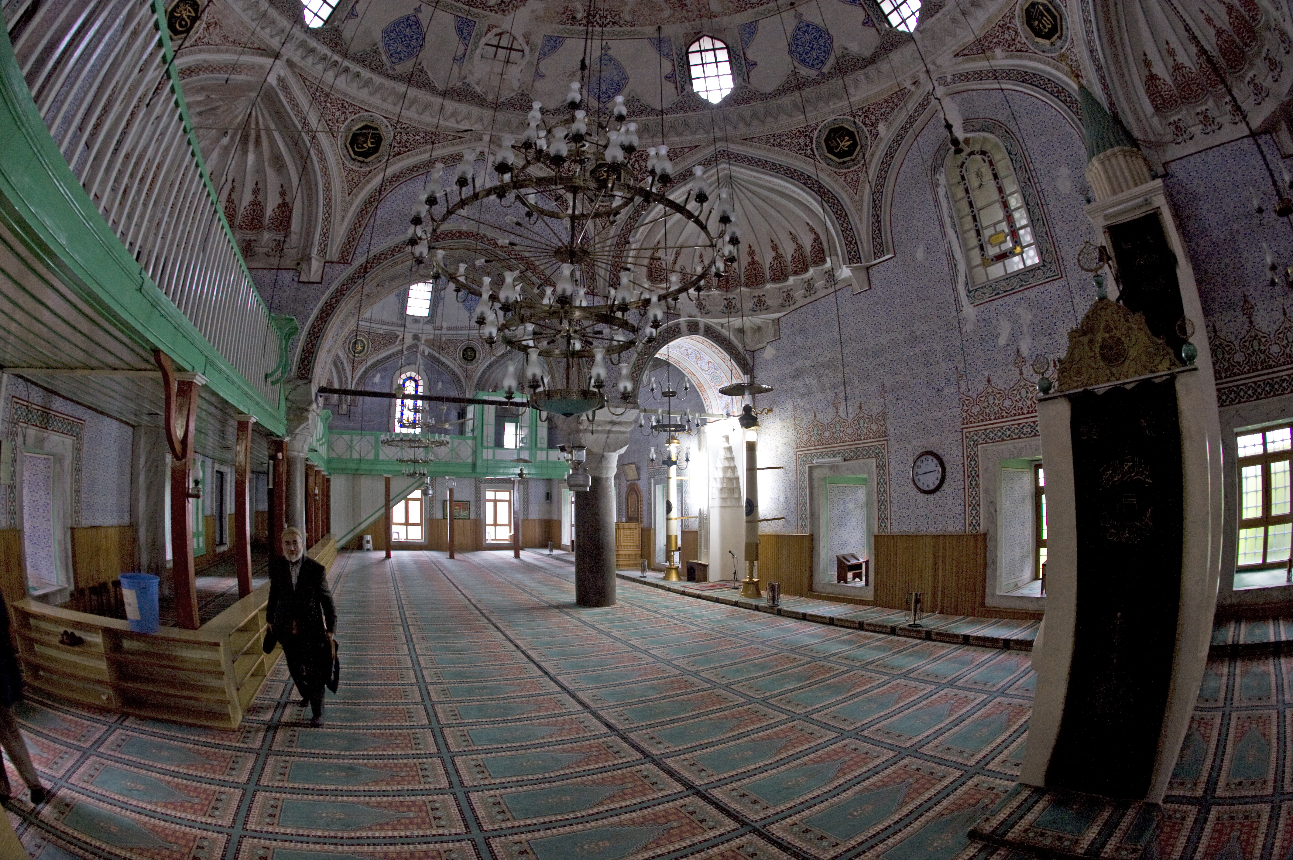 Looking from the original part towards the added part, the arch is the "border"